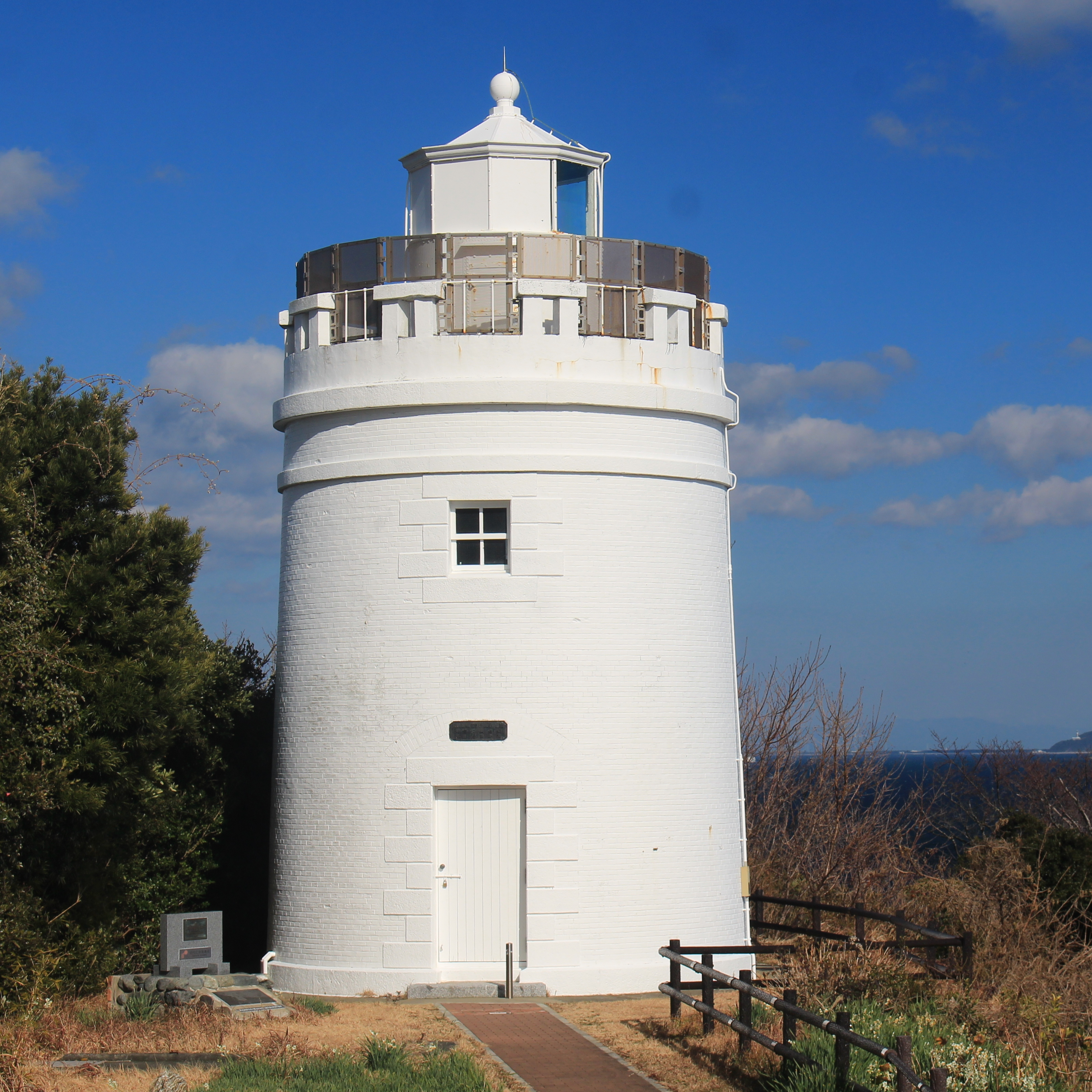 Sugashima Lighthouse in Toba, Mie prefecture, Japan.